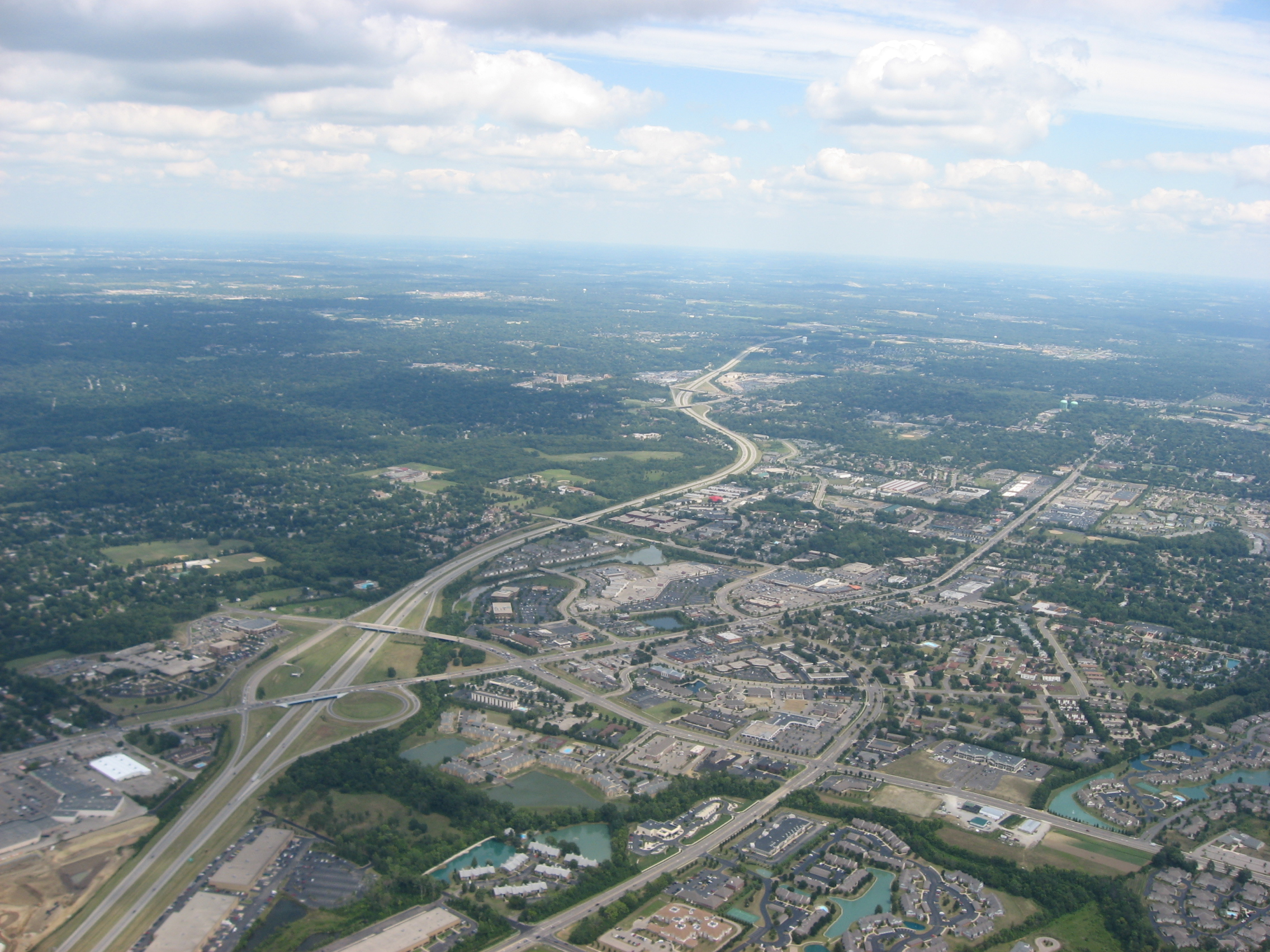 Aerial view of Interstate 675 on the border between the cities of Kettering and Centerville southeast of the city of Dayton, Ohio, United States. The double interchange at the center of the picture is that with Far Hills Avenue/State Route 48 (farther from camera) and that with Alex Bell Road (closer to camera). Picture taken from a Diamond Eclipse light airplane at an altitude of 3,500 feet MSL and a bearing of approximately 60º.